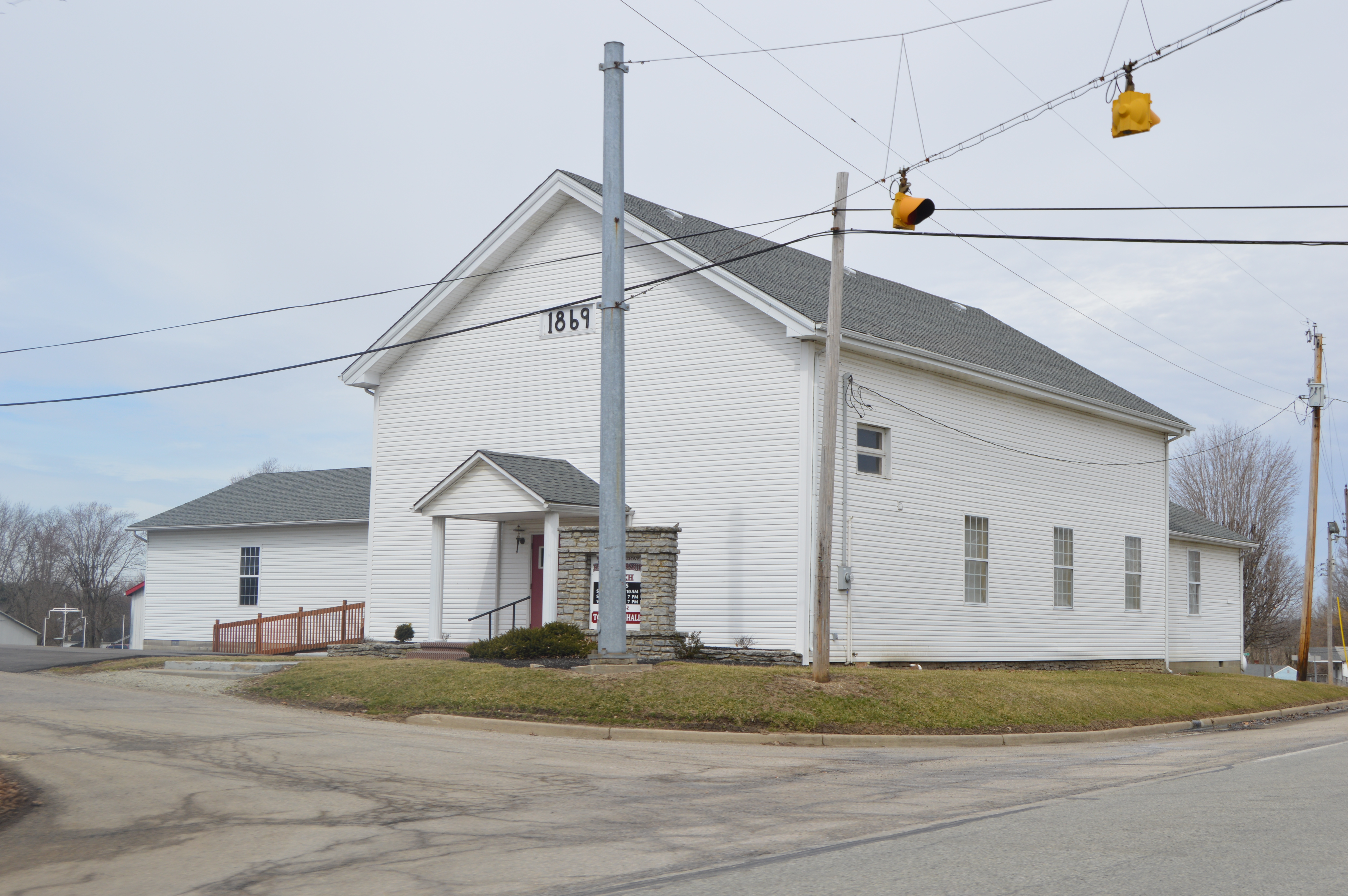 Front and eastern side of the Family Worship Church, located at the junction of State Road 1 and Stone Church Road at Blooming Grove in Blooming Grove Township, Franklin County, Indiana, United States. It was seemingly built in 1869.